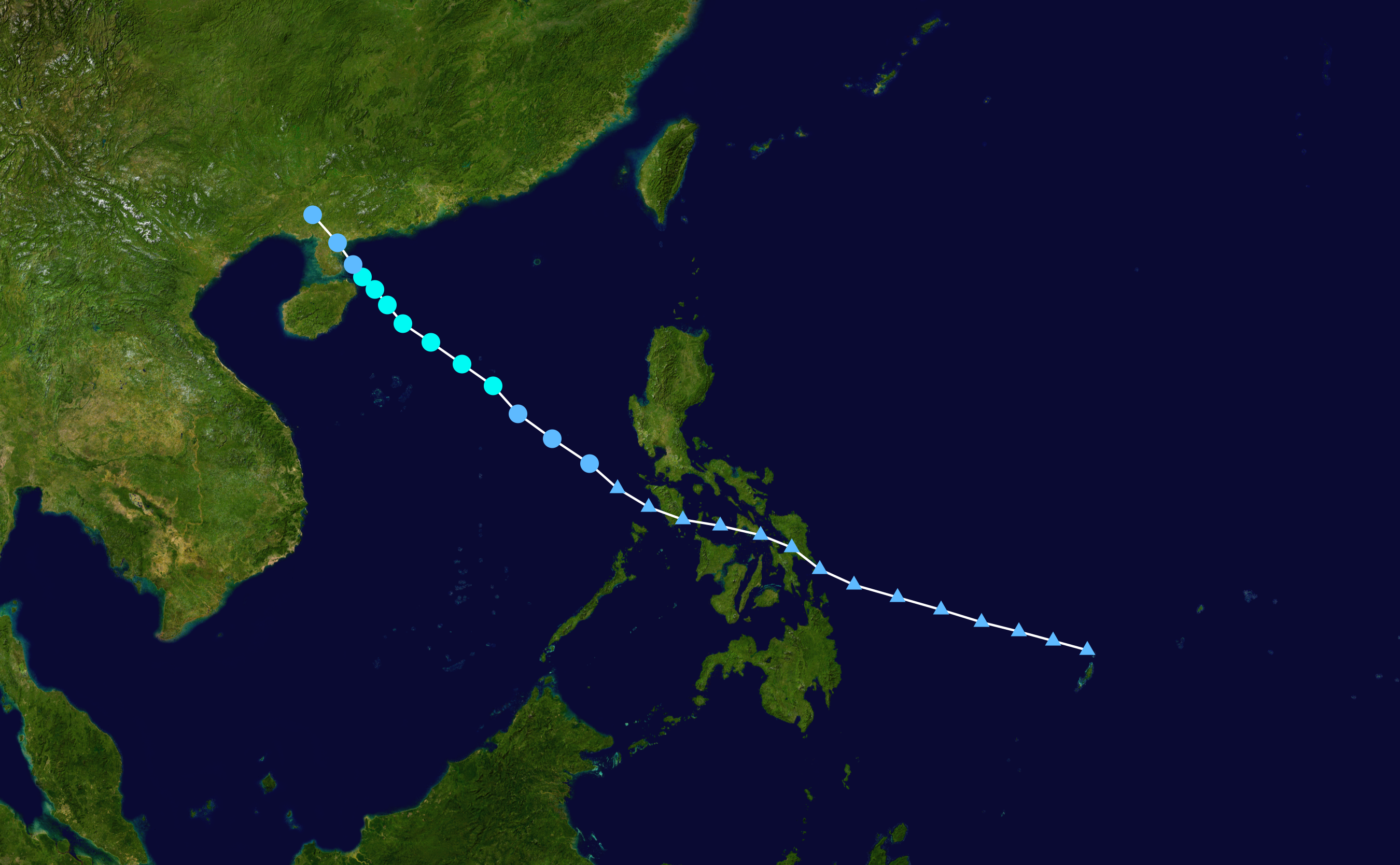 Tropical Storm Jelawat (2006) track. Uses the color scheme from the Saffir-Simpson Hurricane Scale.